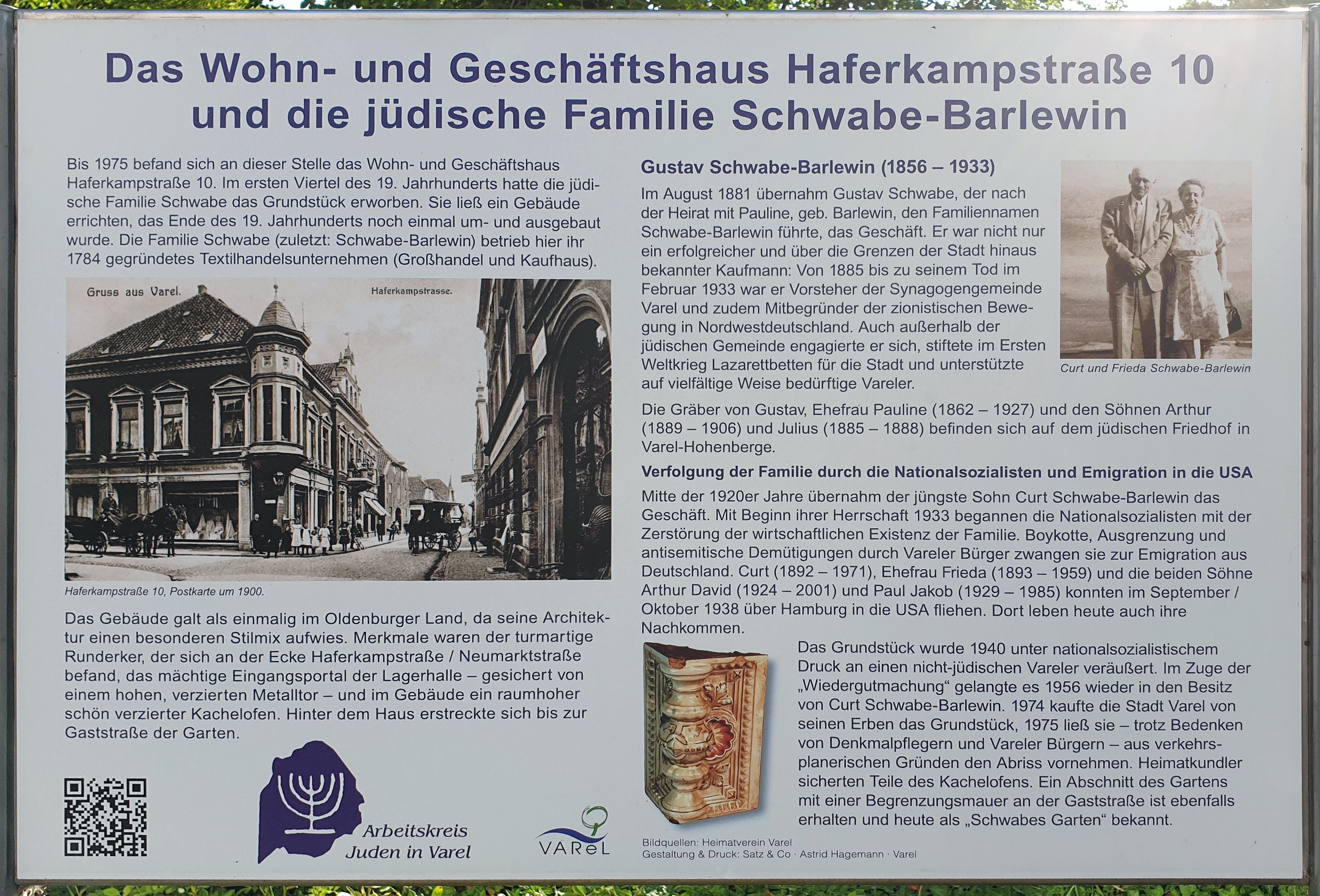 Memorial plaque, Gustav Schwabe-Barlewin, Neumarktstraße, Varel, Deutschland